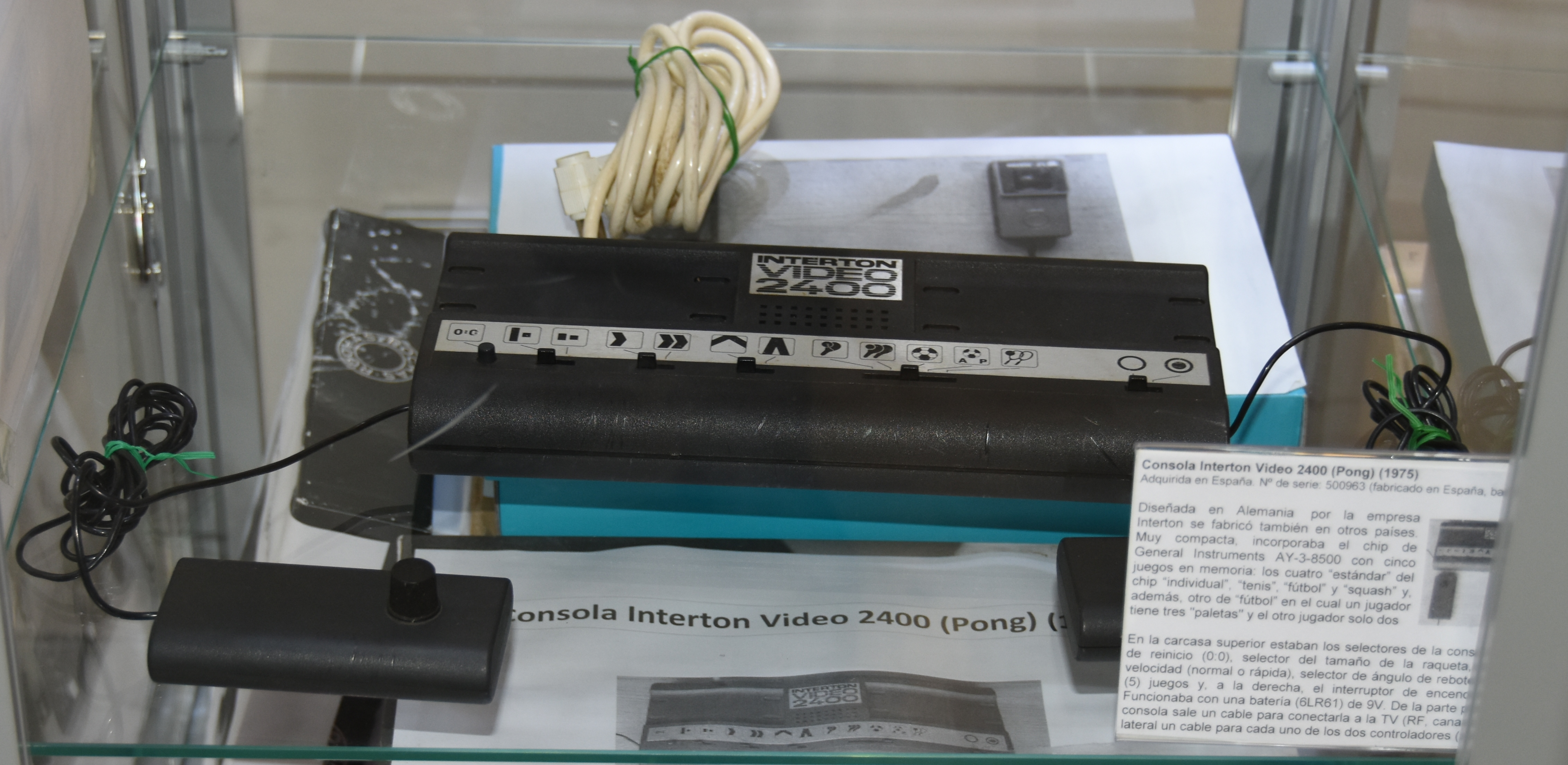 Interton video 2400. Pong console [Fotos por cortesía de Fernando Sáenz]